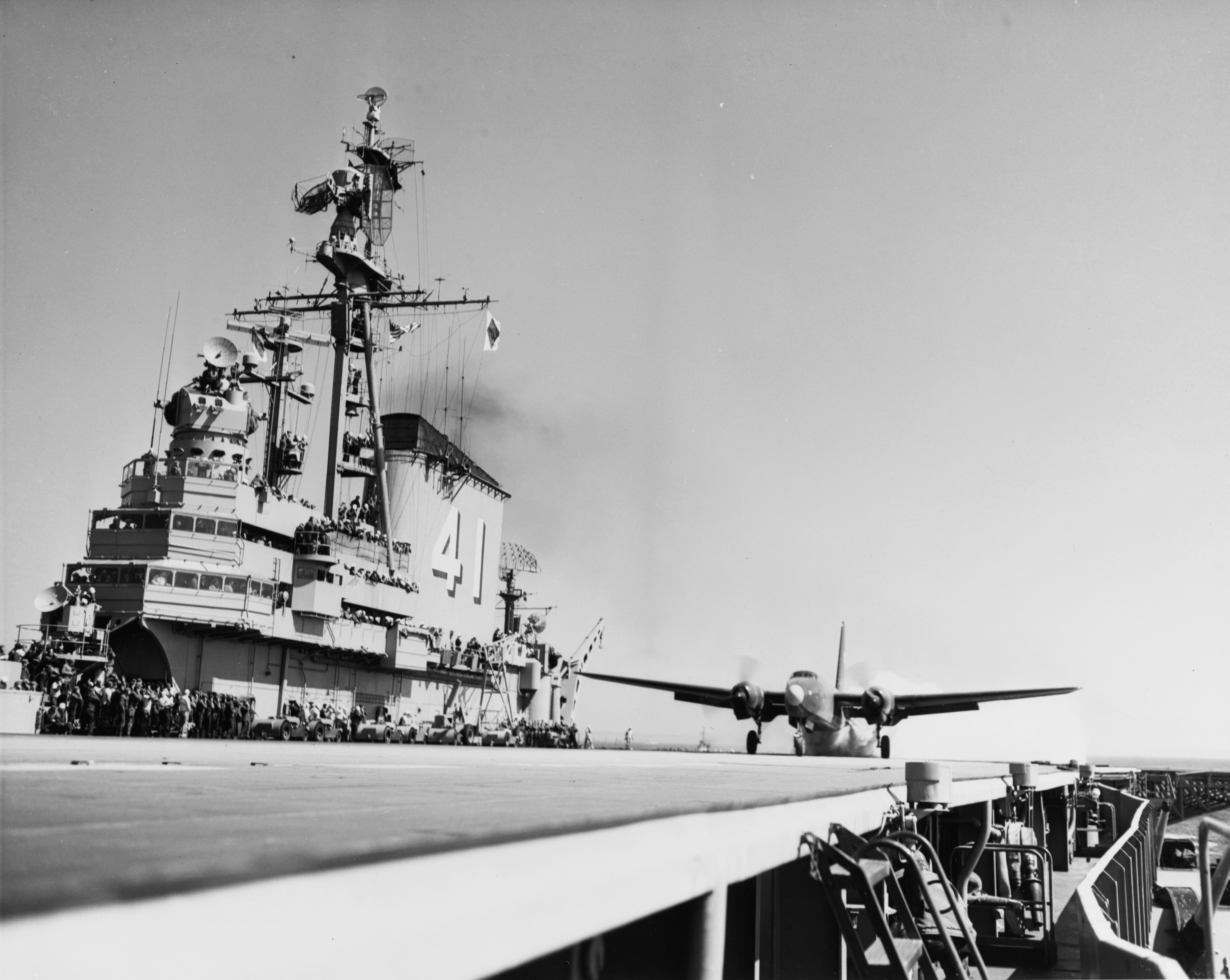 A U.S. Navy Lockheed P2V-3C Neptune is launched from the aircraft carrier USS Midway (CVB-41), with a JATO rocket boost, on 7 April 1949.